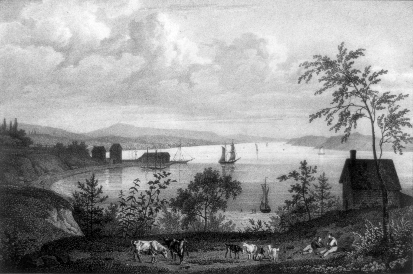 "Tarrytown Where Major André was Captured". Illus. in: J. Milbert, Itineraire Pittoresque du Fleve Hudson, 1828-29.